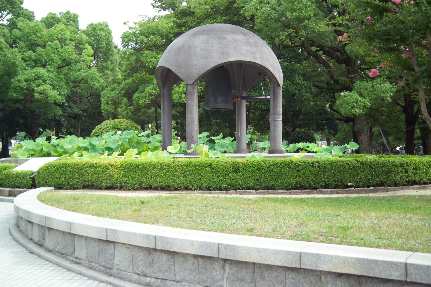 Bell of Peace, Peace Memorial Park, Hiroshima, Japan. I took the photo.